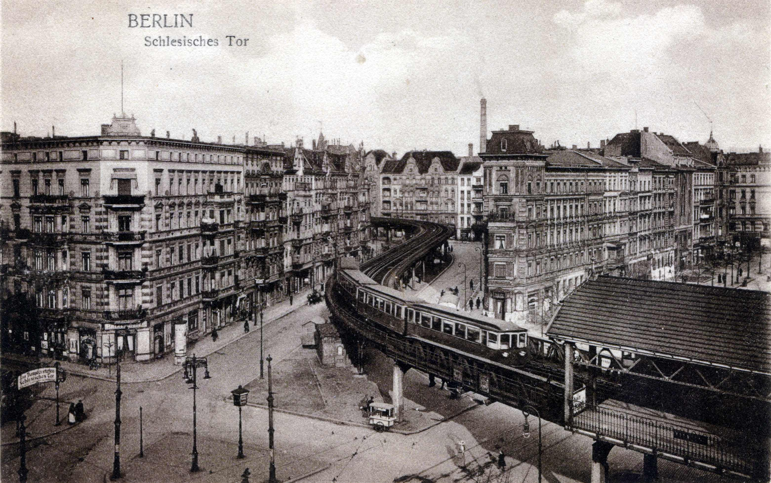 Berlin, station "Schlesisches Tor" around 1902